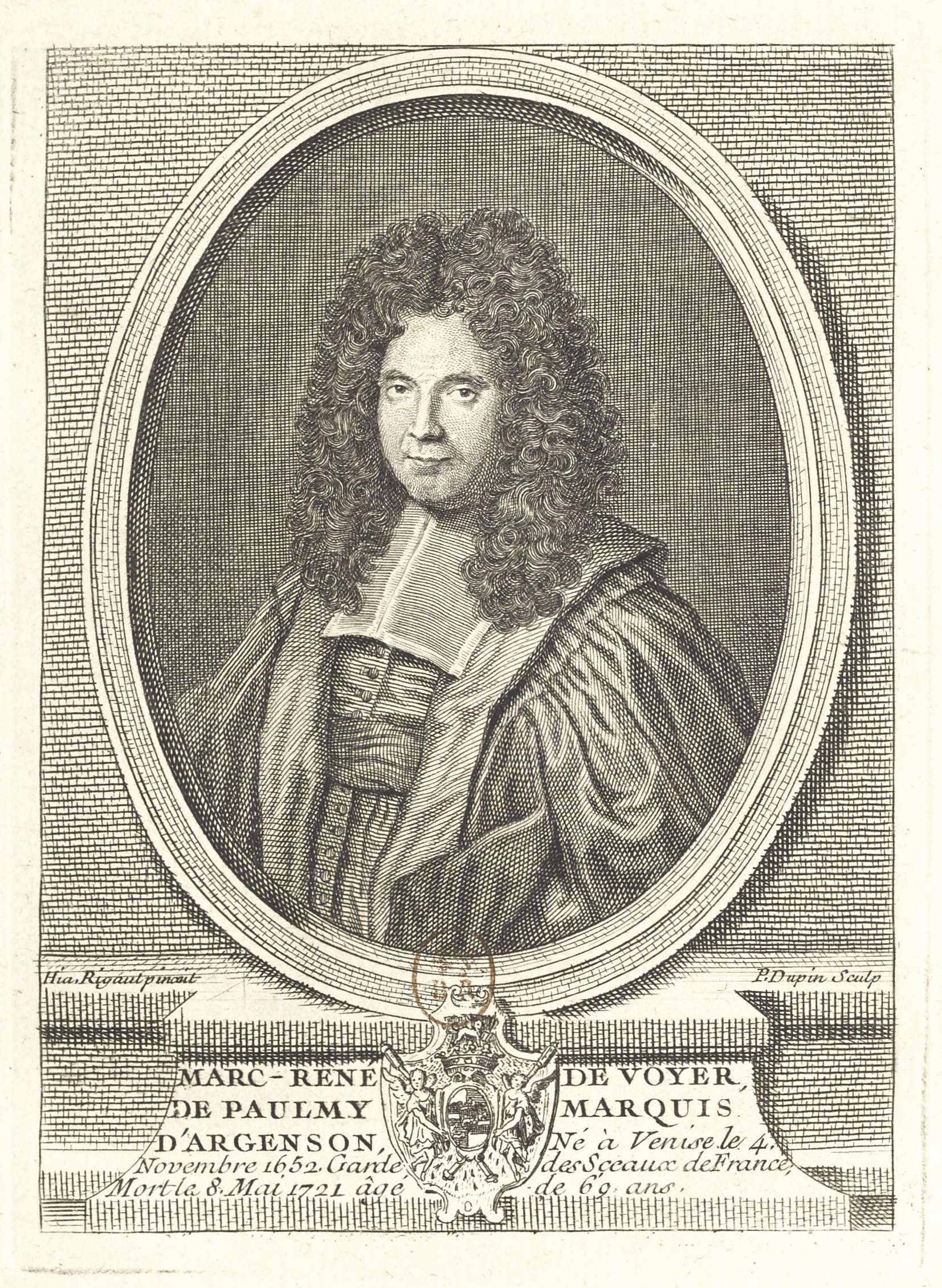 Marc-René de Voyer de Paulmy d'Argenson (1652–1721), french minister of Louis XV of France.